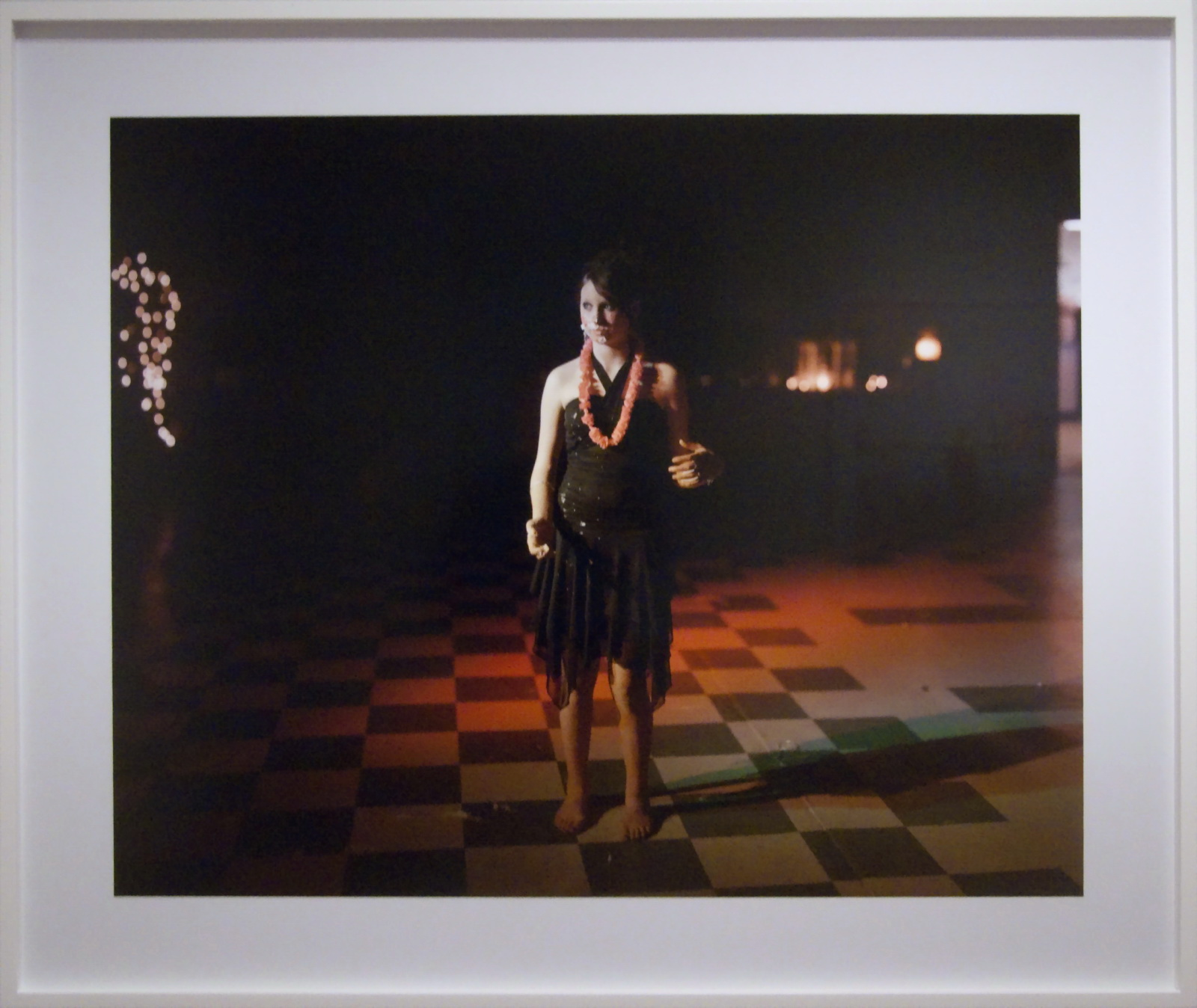 Marie, Park Rapids, Minnesota By Alec Soth Pigmented ink print, 2007 This photograph was taken as part of an editorial project for W magazine, but it was ultimately not published.